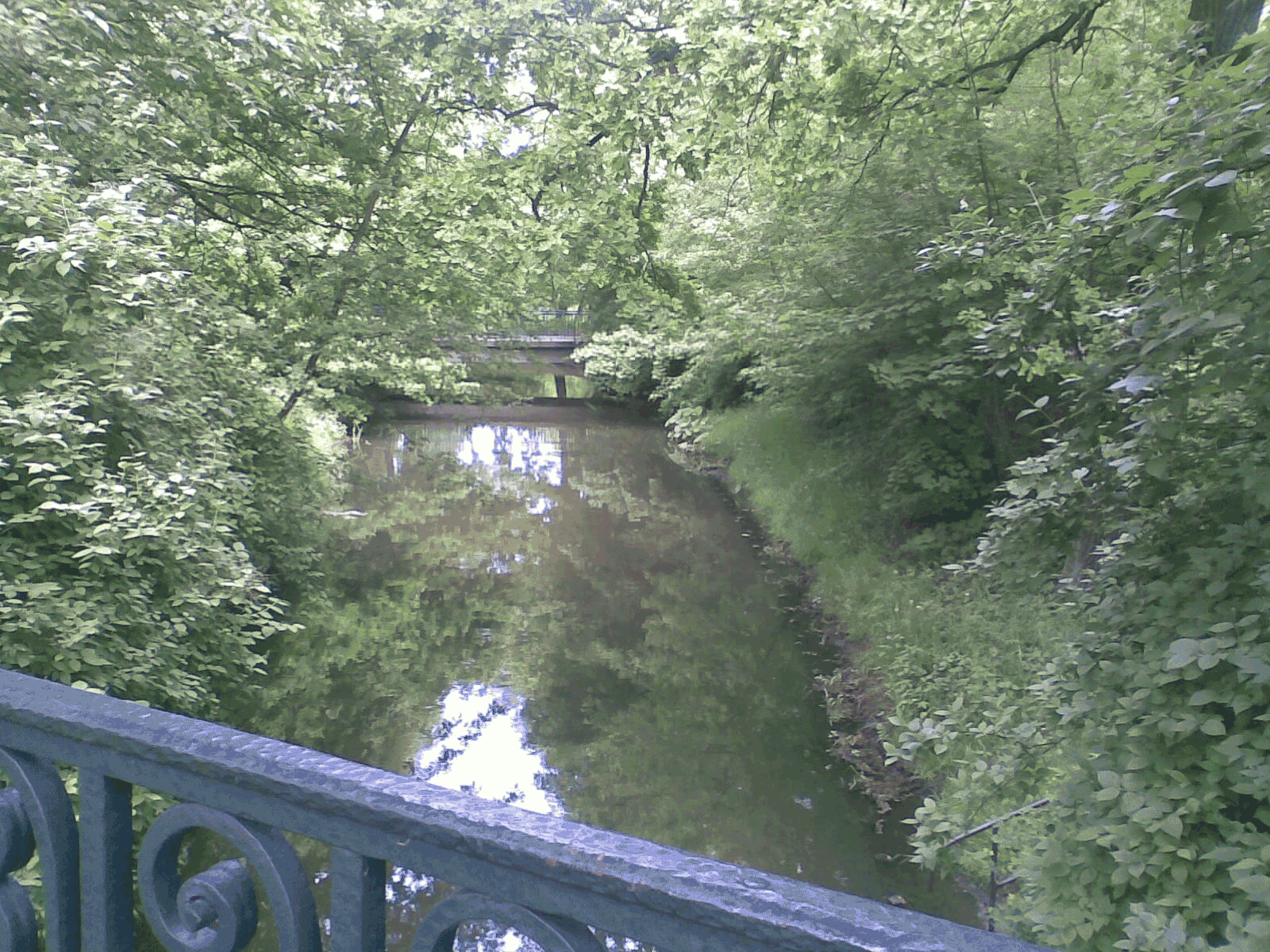 Panke at end of Schlosspark Pankow